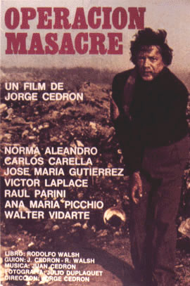 Photograph used for the movie poster of Operación Masacre. Text on the poster itself is merely a title with no creative input.